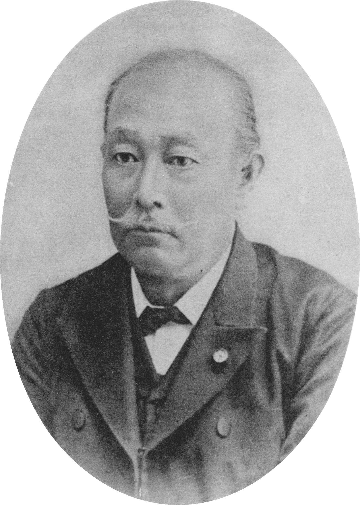 enNishi Amane, supervisor of the Tokyo Normal School.